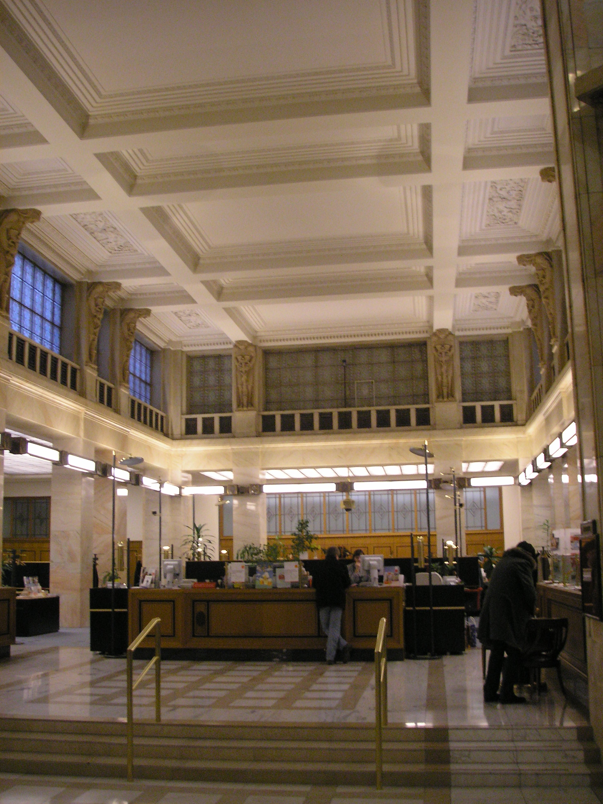 Description: Interior view of the Creditanstalt bank house on Schottenring in Vienna. Source: self-made, I release it into the public domain.